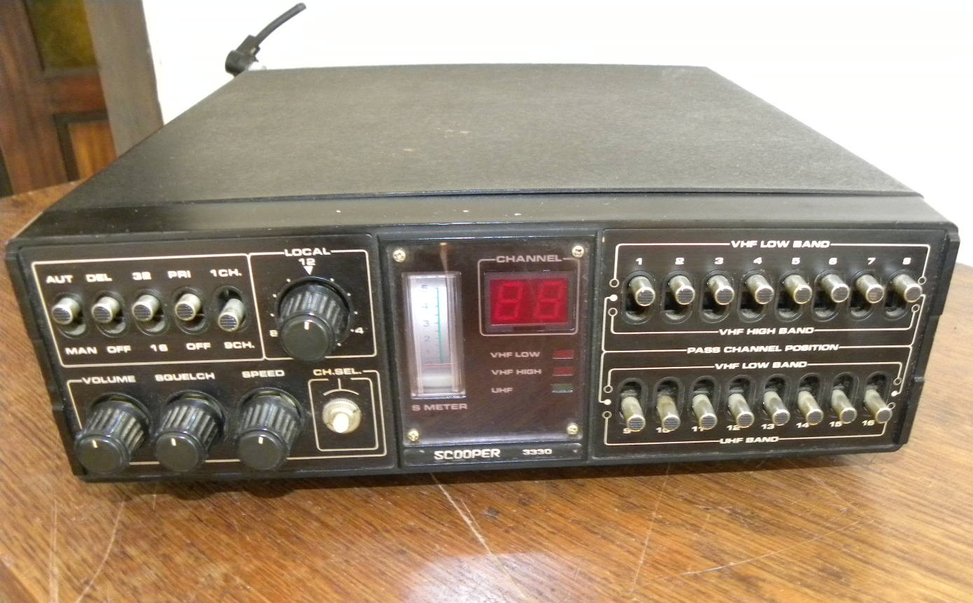 Scooper 3330 radio scanner - 32 channels 3 bands with signal meter and priority